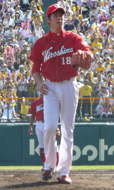 Kenta Maeda, pitcher of the Hiroshima Toyo Carp, at Hanshin Koshien Stadium.